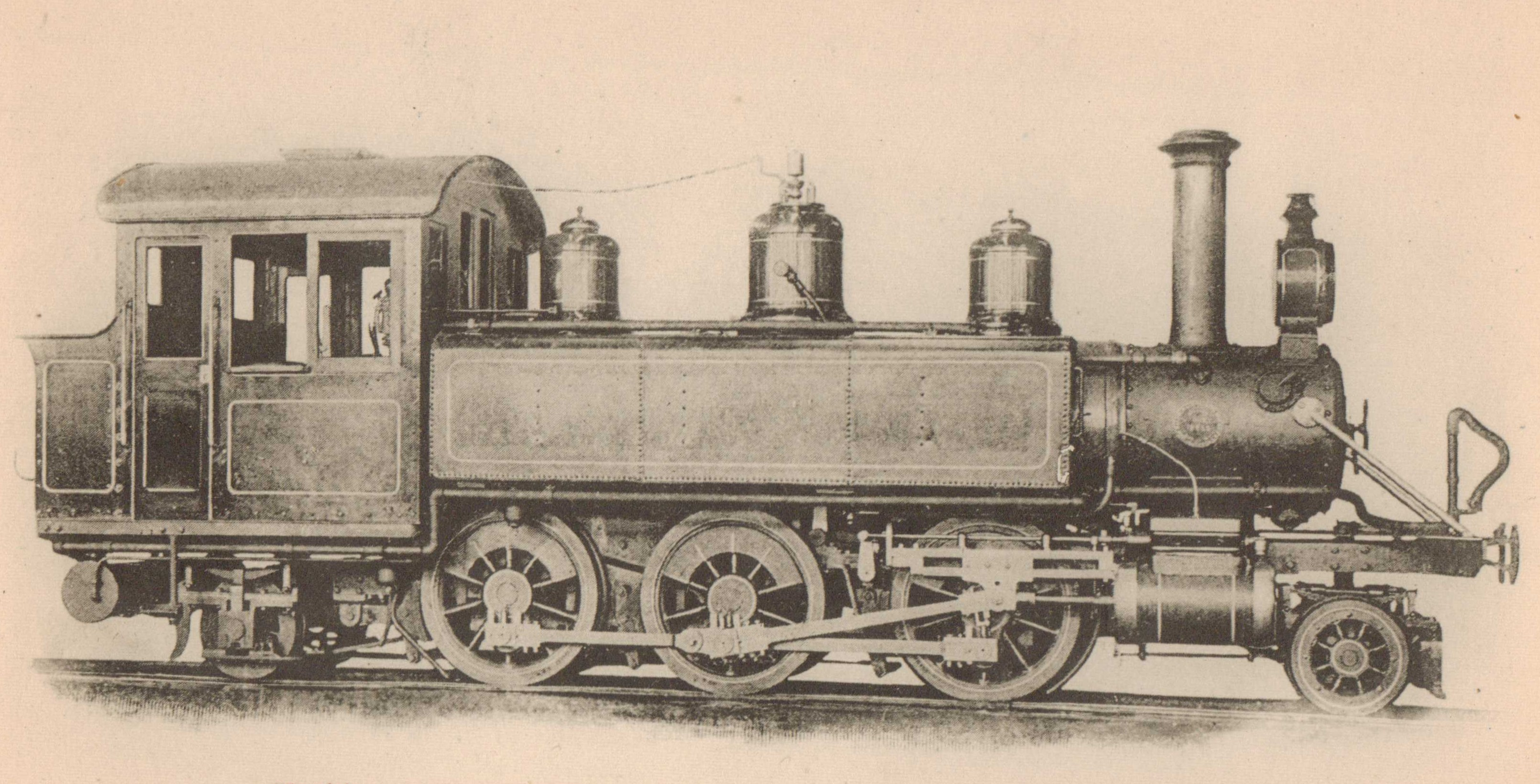 NGR Class I no. 512 (2-6-2) Ex Zululand Railway Company construction locomotive no. 1